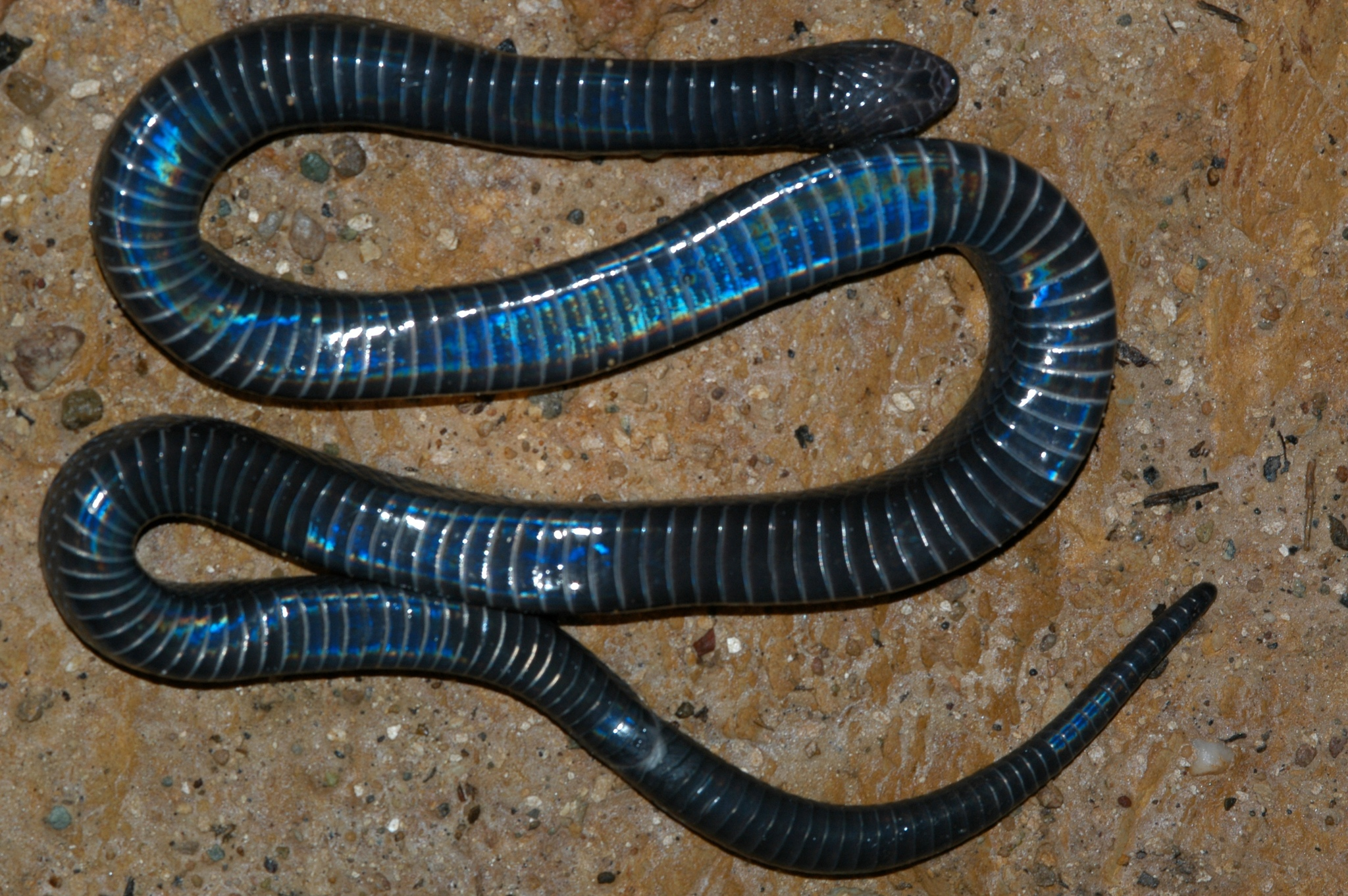 Macrelaps microlepidotus